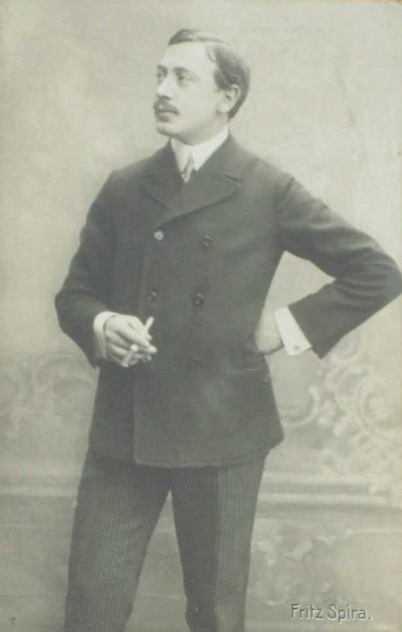 Publicity postcard portrait of Austrian actor Fritz Spira (1 August 1881 – ca. 1943).